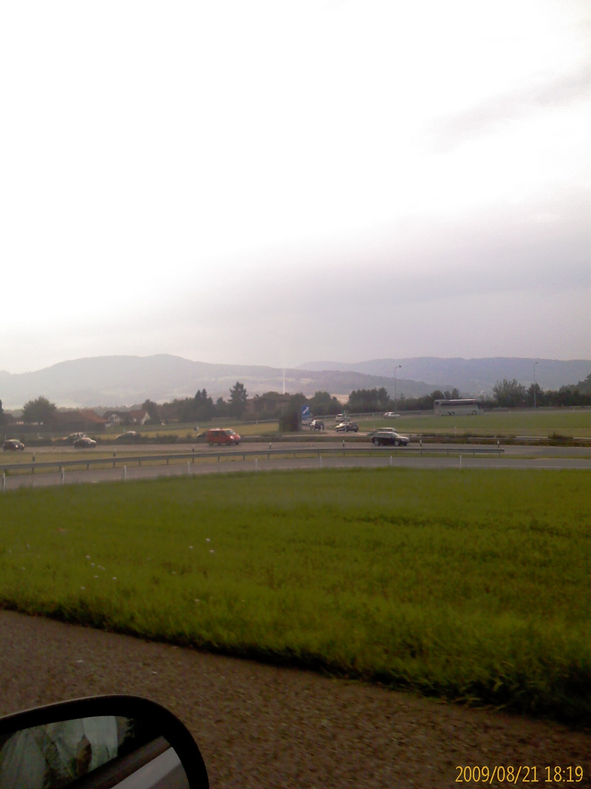 Entry Lenzburg of the Swiss Highway A1, view to Niederlenz, canton of Aargau, Switzerland